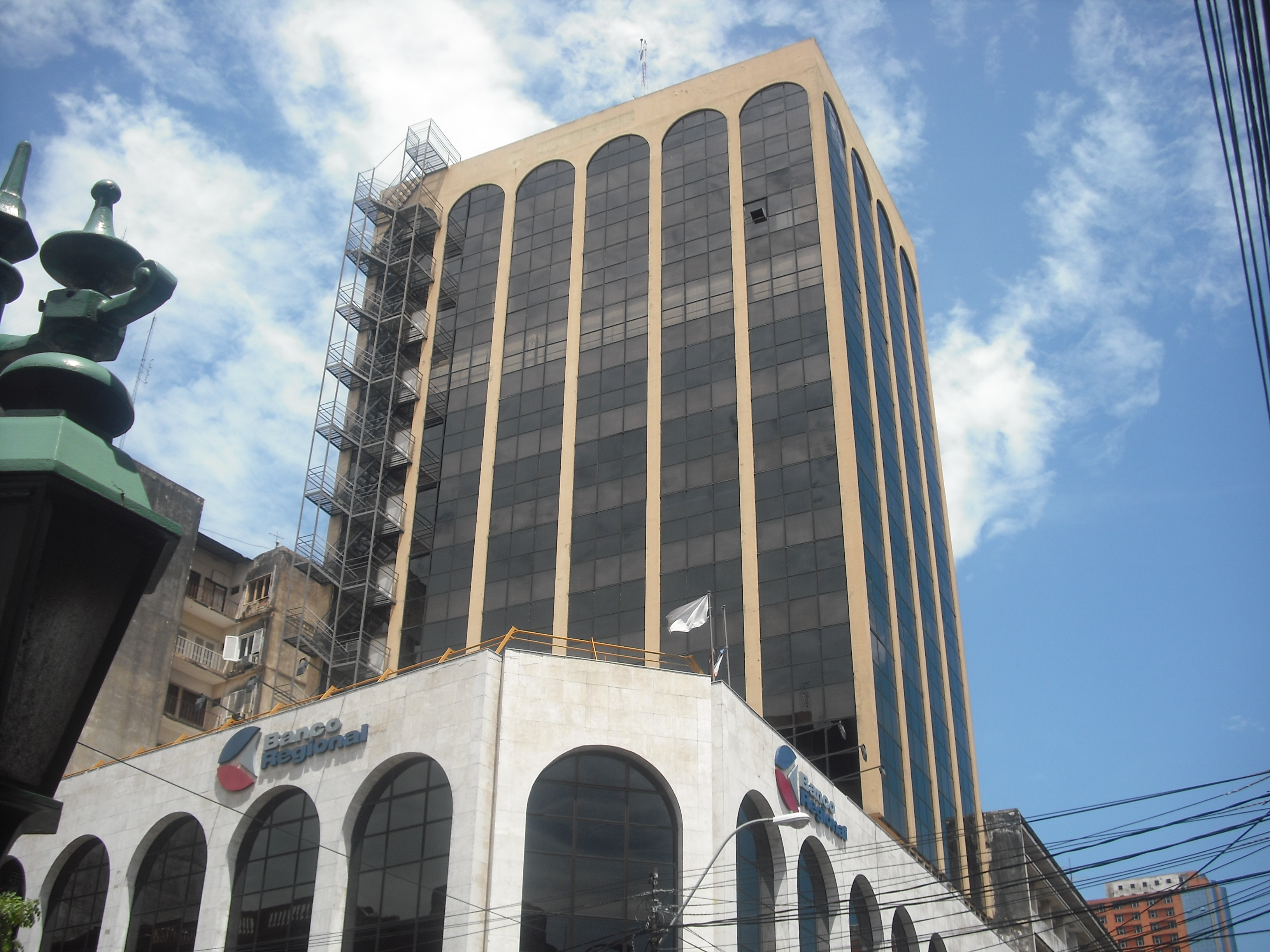 Photo of the ABN Amro Bank Tower in 2010